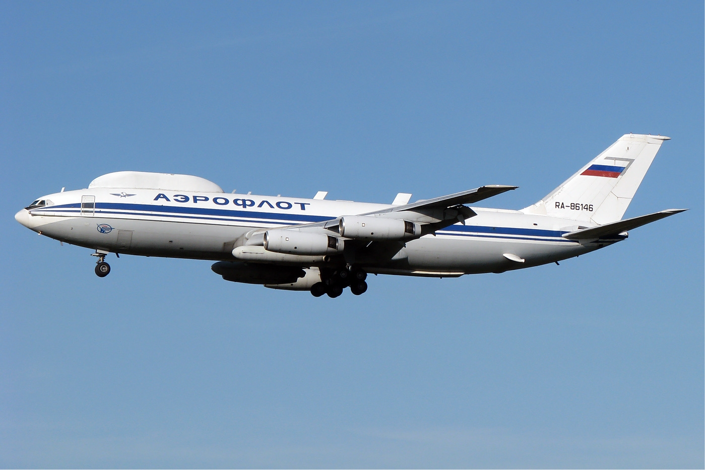 Russian Air Force Ilyushin Il-87 Aimak (Il-80/Il-86VKP)